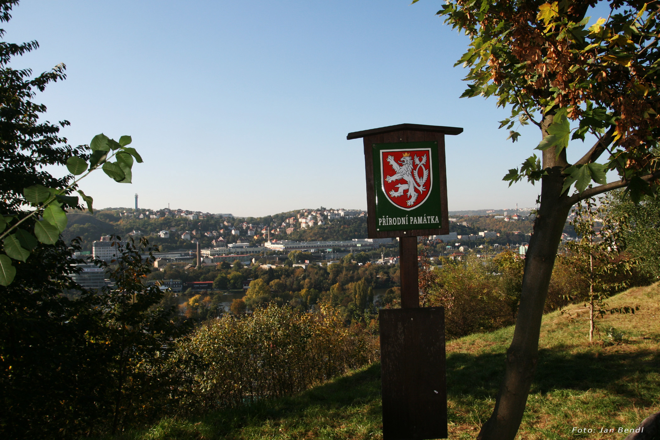 Natural monument Podolský profil in Prague, Czech Republic